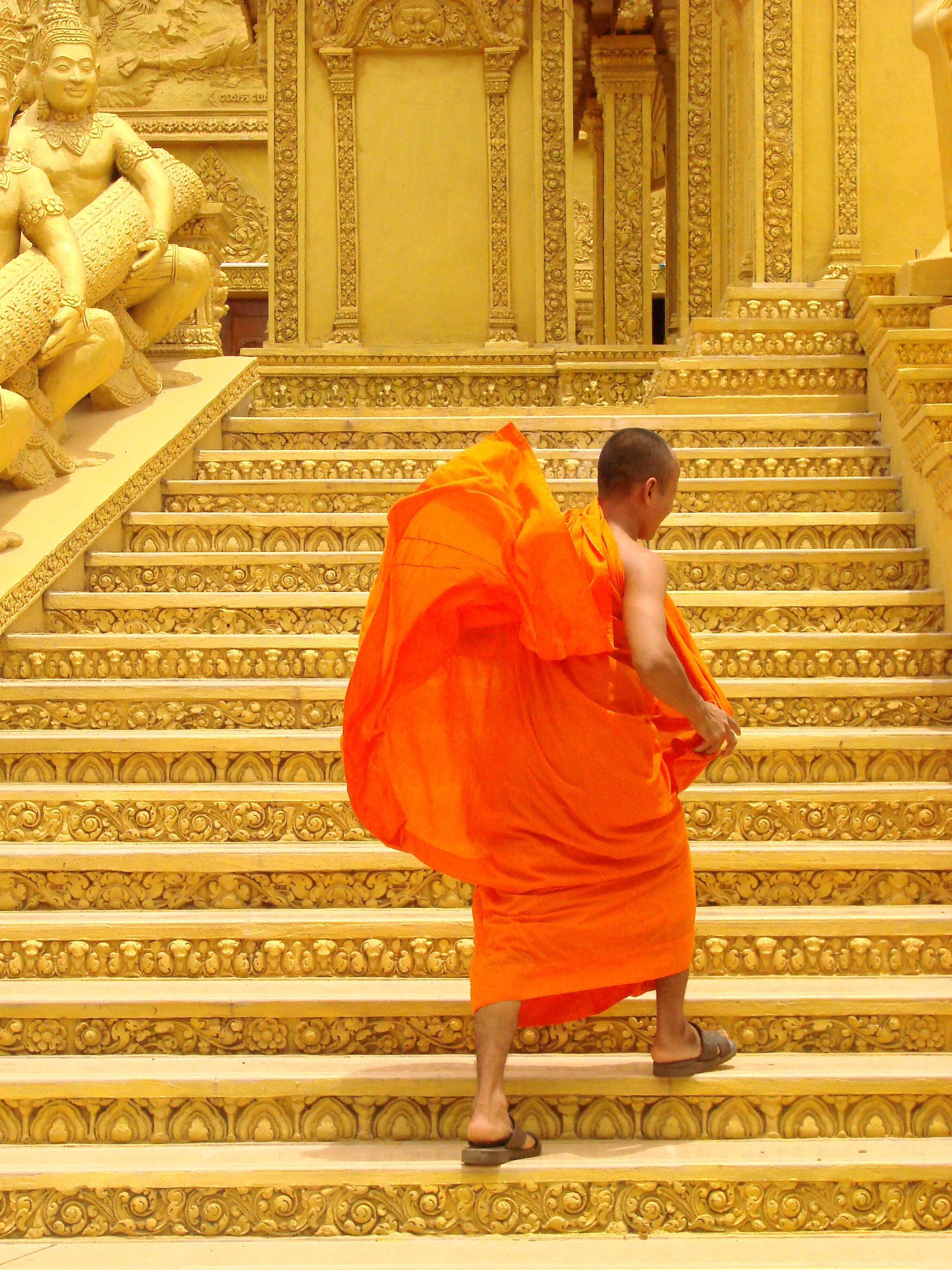 Buddhist monk, near Phnom Penh, Cambodia. May 2009.